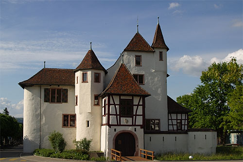 The Château of Pratteln